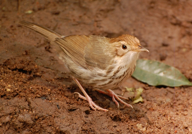 Puff-throated Babbler in the hills of India. This one crossed our trekking path barely meters away intent on its foraging!